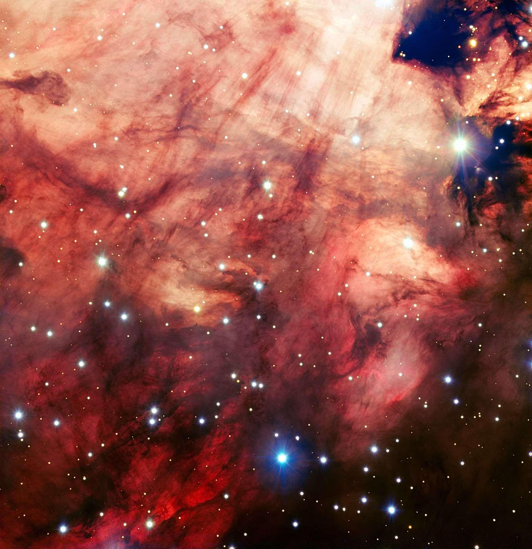 This image of the Omega Nebula (Messier 17), captured by ESO's Very Large Telescope (VLT), is one of the sharpest of this object ever taken from the ground. It shows the dusty, rosy central parts of the famous star-forming region in fine detail.